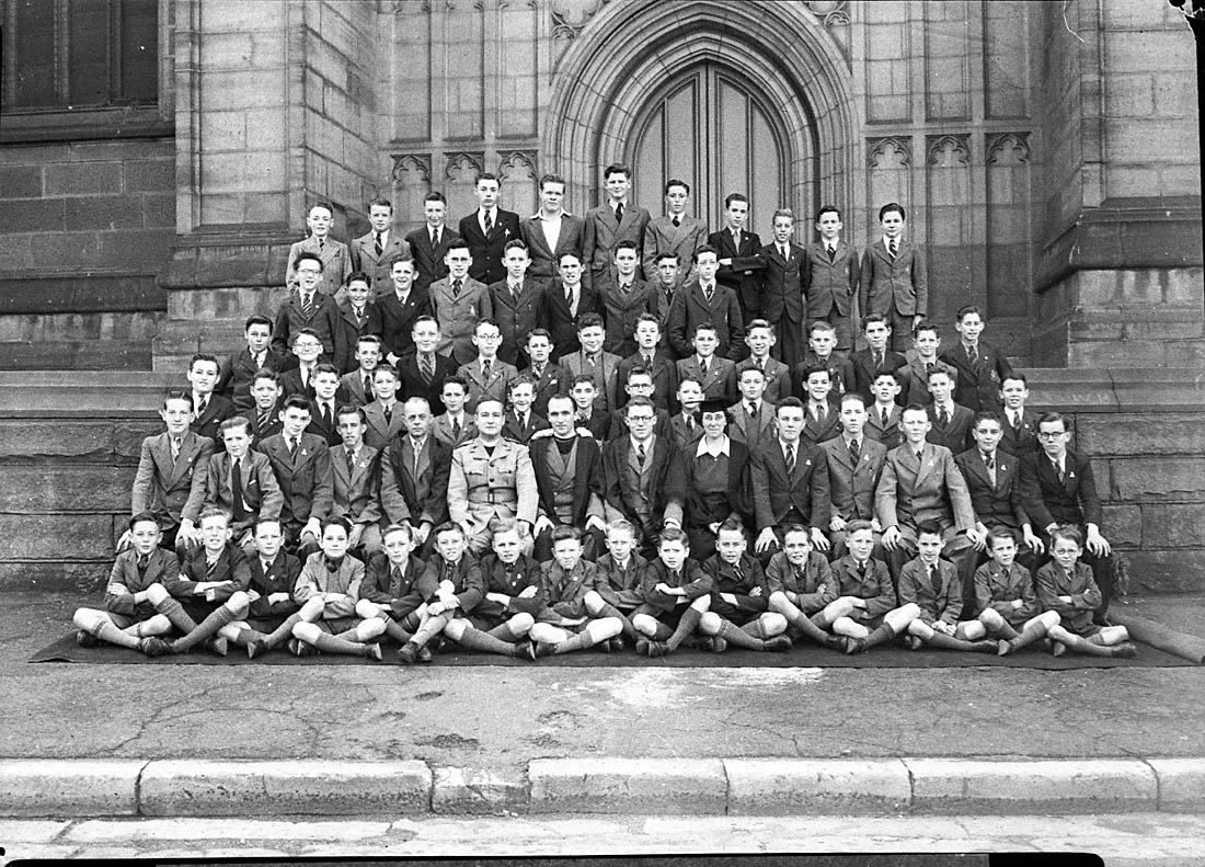 St Andrew's Cathedral School students outside St Andrew's Cathedral, circa 1944.